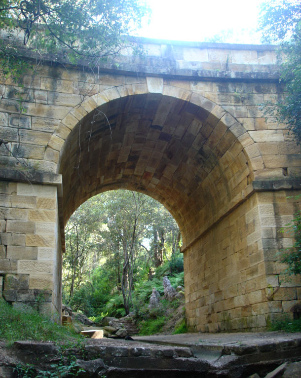 Lennox Bridge carries Mitchell's Pass at Lapstone Hill. Taken in February 2006 by me.